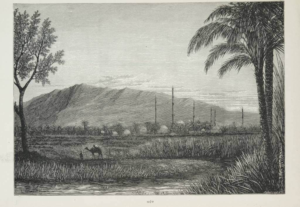 Person and camel stand at some distance from low buildings, six tall peaks visible.